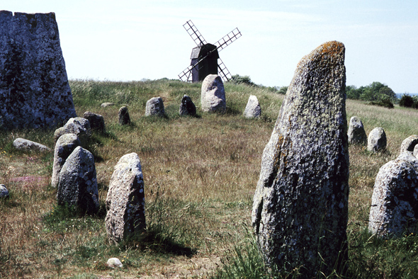 The burial place of Gettlinge on the island of Öland (Sweden), Photographer Wigulf